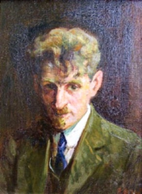 Selfportrait